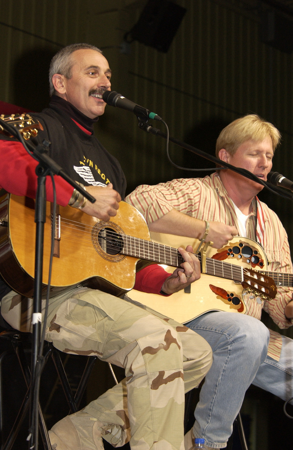 Country music singer Aaron Tippin performed for Soldiers of the 101st Airborne Division and Task Force Band of Brothers Nov. 25 at the installation gymnasium on Forward Operating Base Speicher in Tikrit, Iraq. The singer entertained the troops for Thanksgiving with the help of Stars for Stripes, a Nashville-based organization who helps bring country music performers to deployed service members.